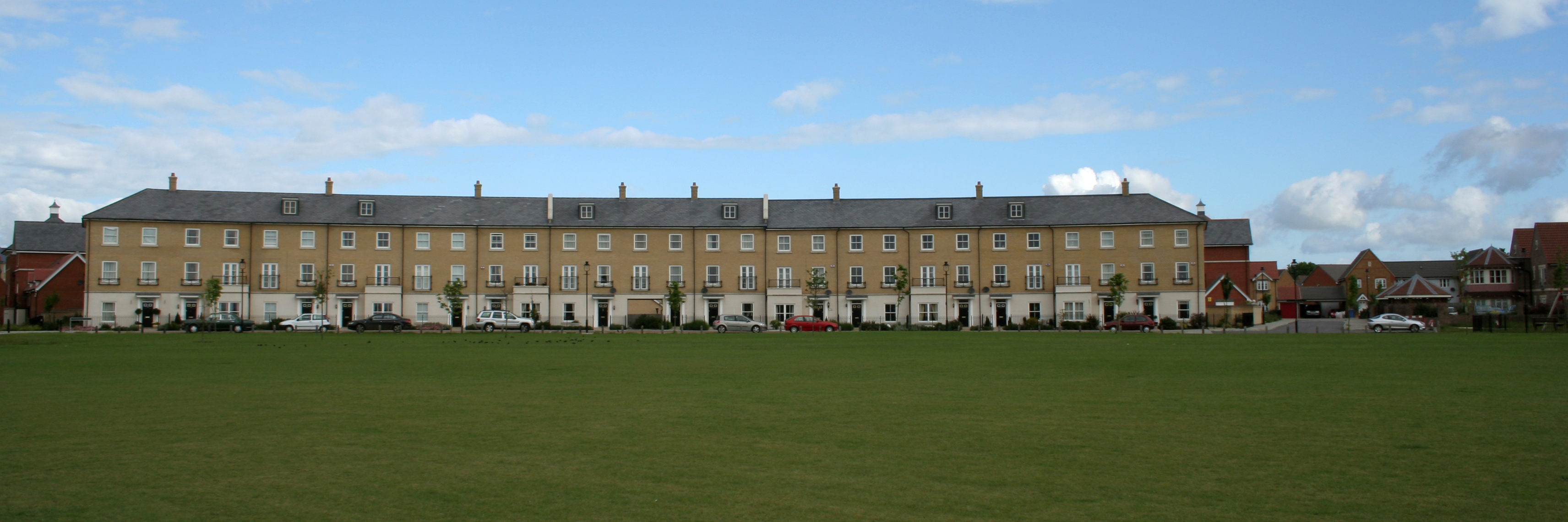 Bonny Crescent, Ravenswood, taken from the centre of the cricket pitch.